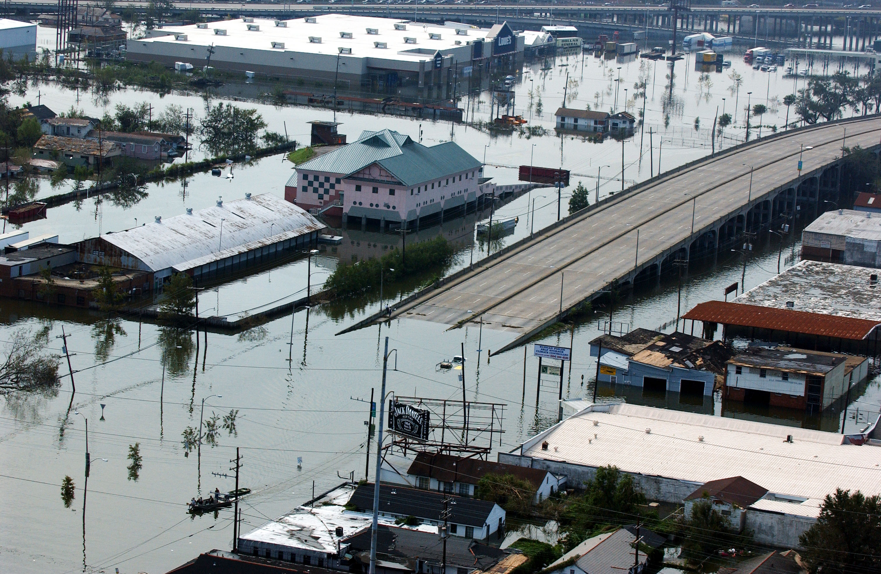 New Orleans, La. August 30, 2005 -- Aerial of flooded neighborhoods and roadway. New Orleans is being evacuated as a result of floods caused by hurricane Katrina. Photo by Jocelyn Augustino/FEMA